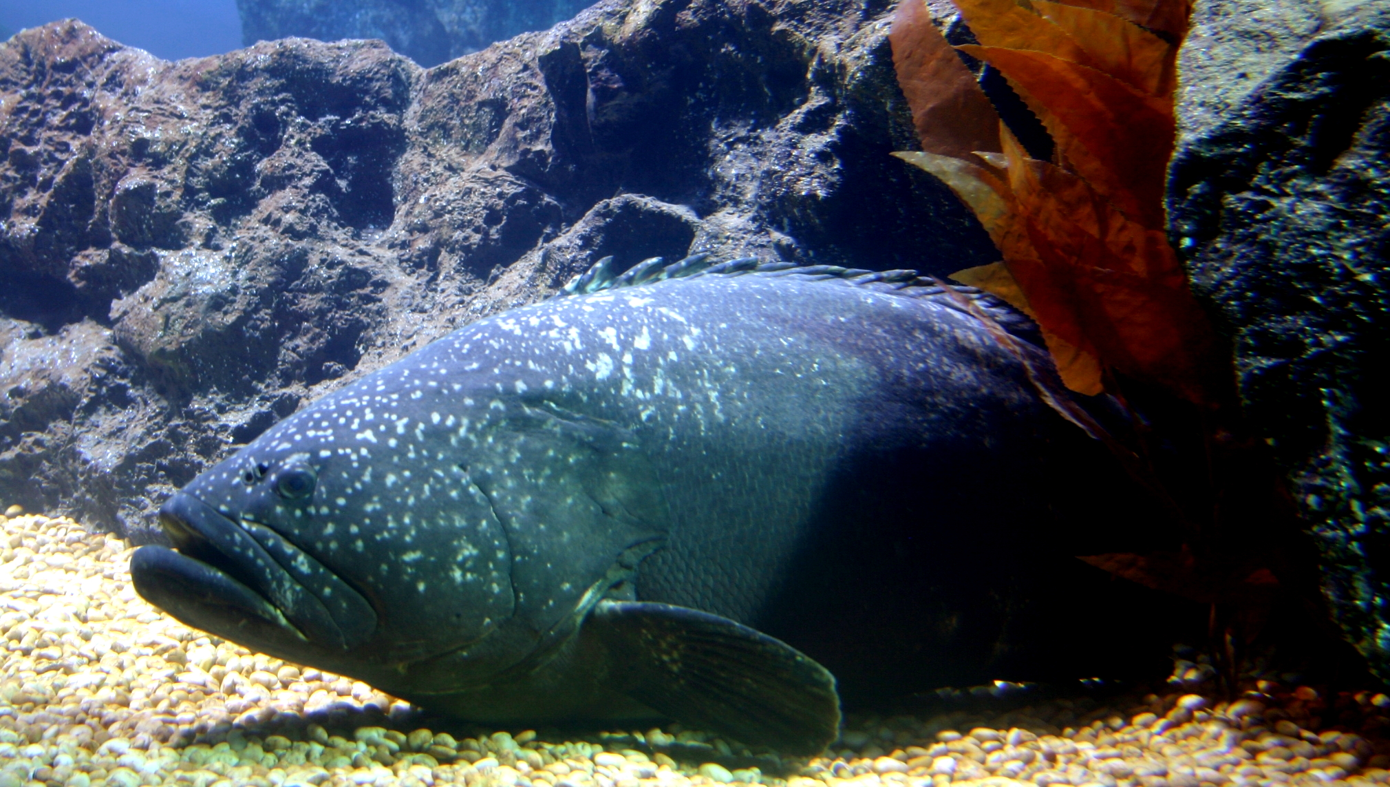 Giant Grouper (Epinephelus lanceolatus), picture taken in the Siam Ocean World aquarium, Bangkok, Thailand